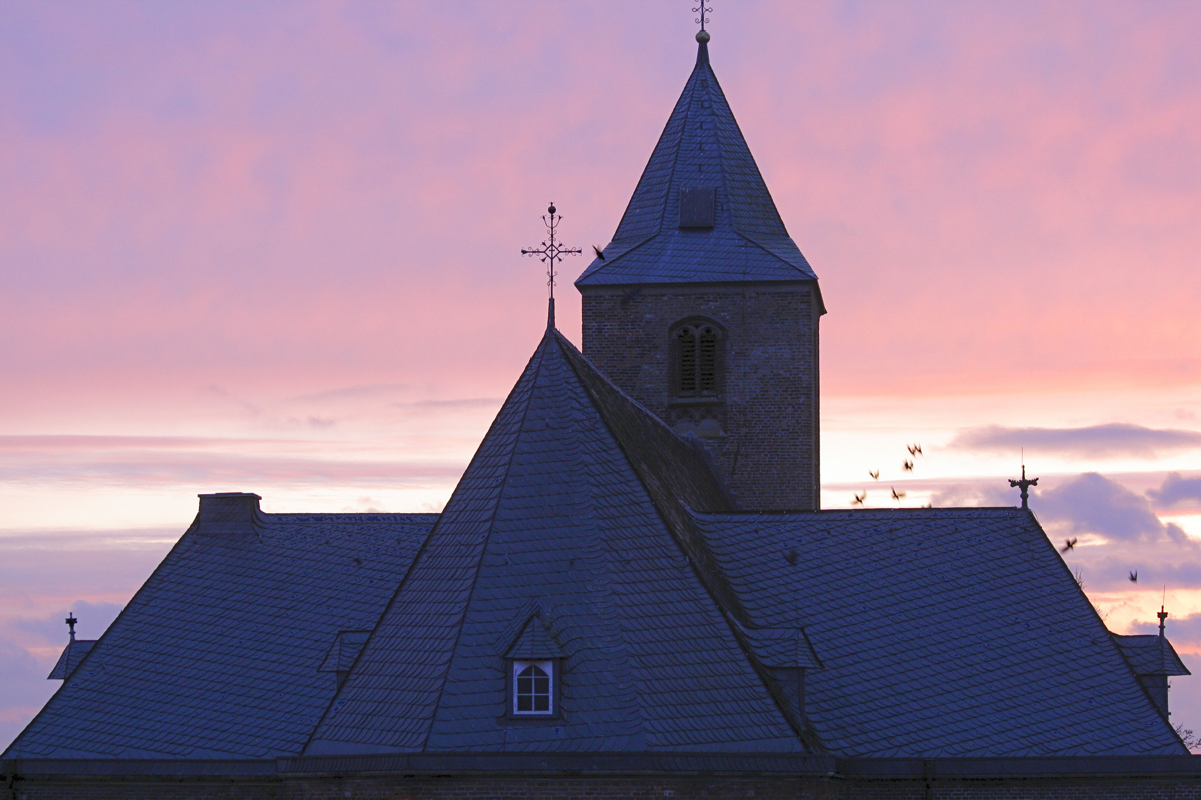 Catholic church Keeken